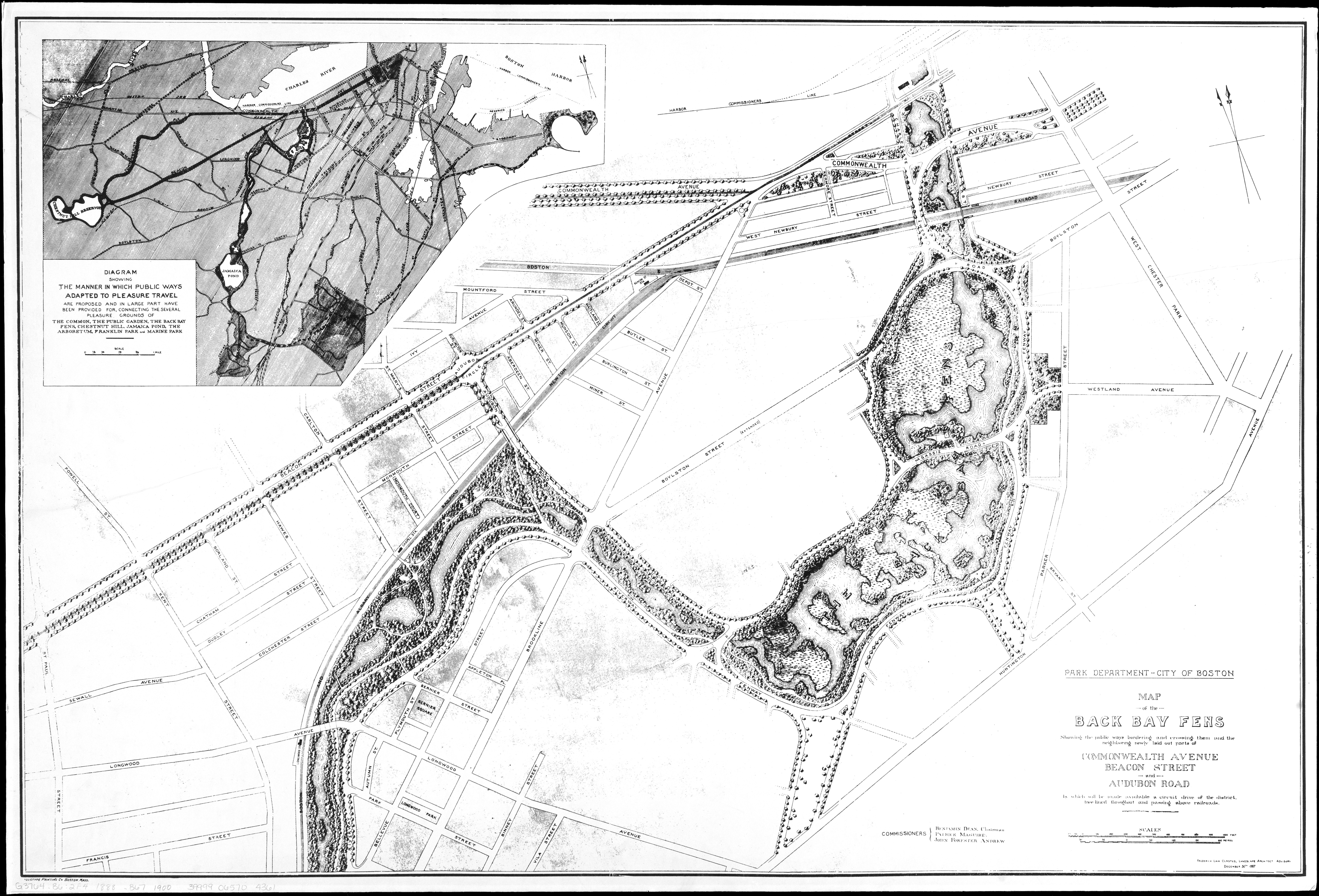 December 1887 plan by Frederick Law Olmsted for the Back Bay Fens and the Riverway